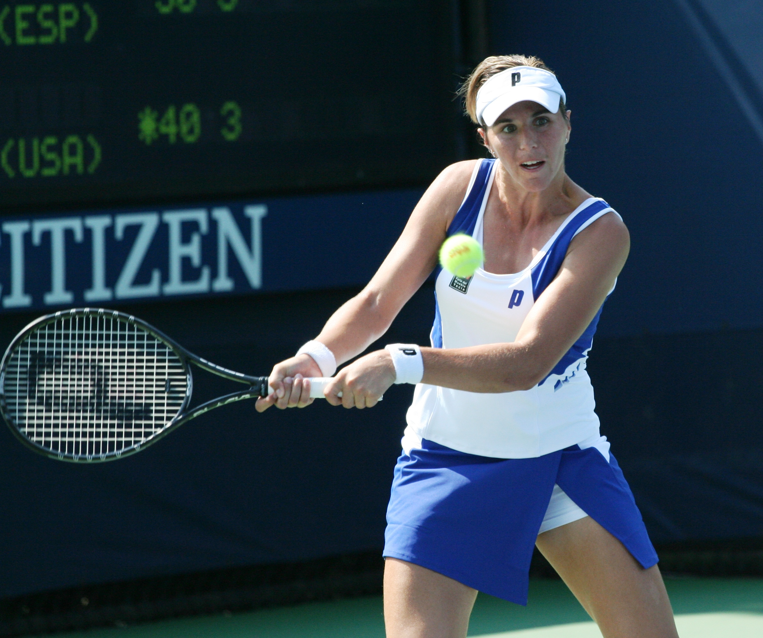 U.S. Open, Tuesday, Aug. 31, 2010